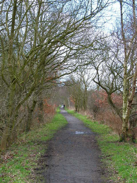 Deerness Valley Path, near Esh Winning. One of the many disused railways in County Durham which has been converted into a pedestrian and cycle path